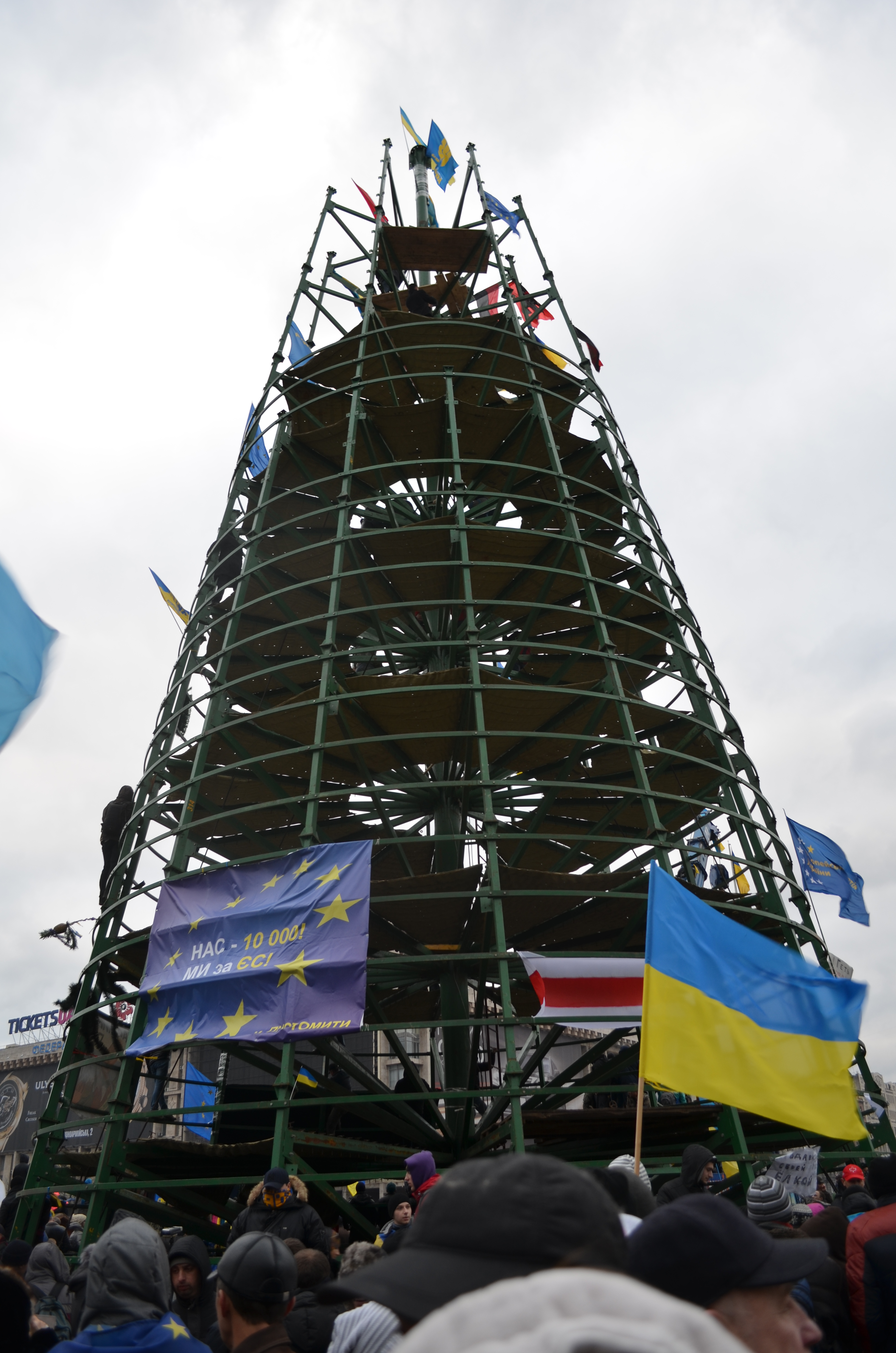 Euromaidan in Kyiv 01/DEC/13